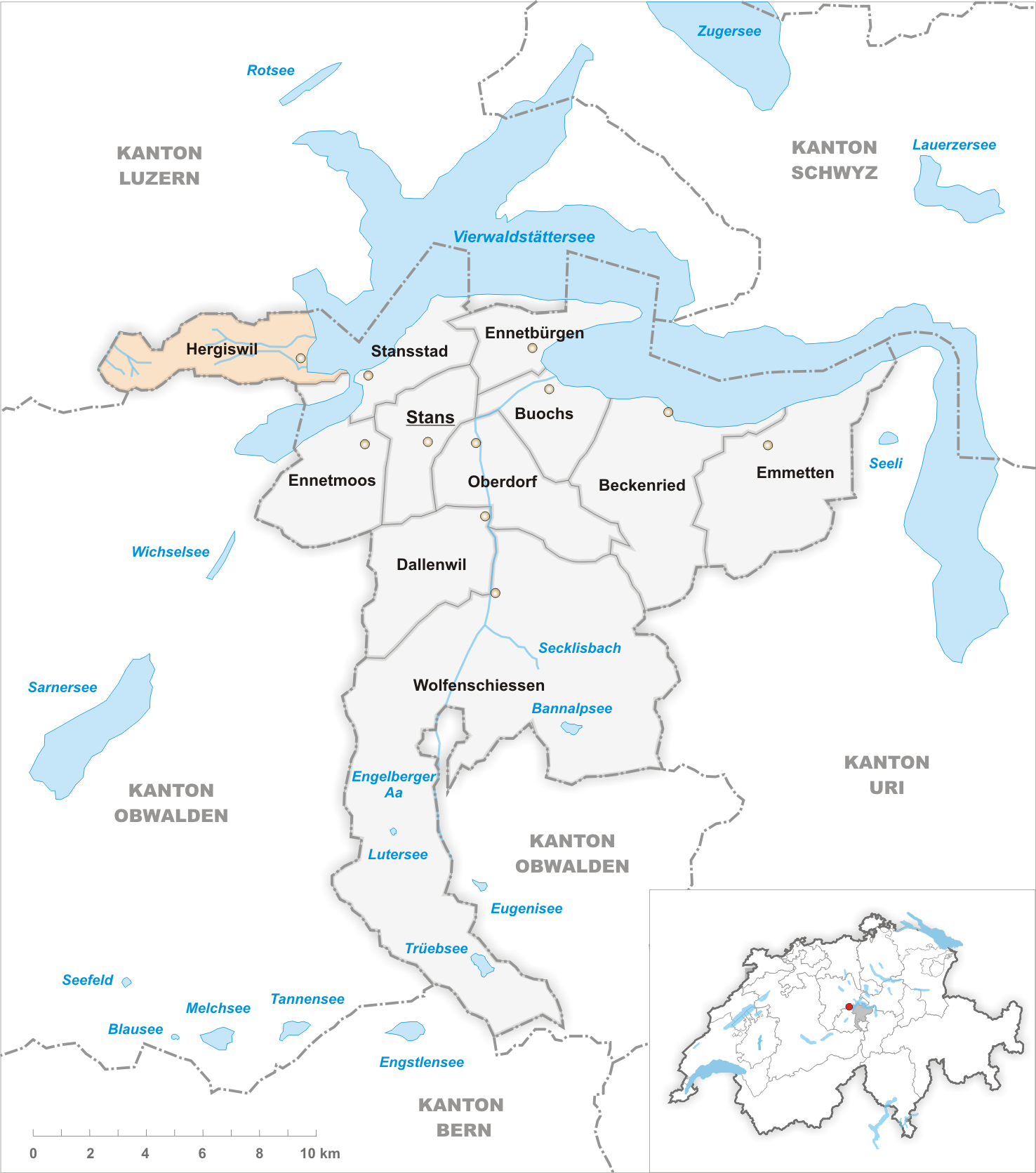 Municipality Hergiswil